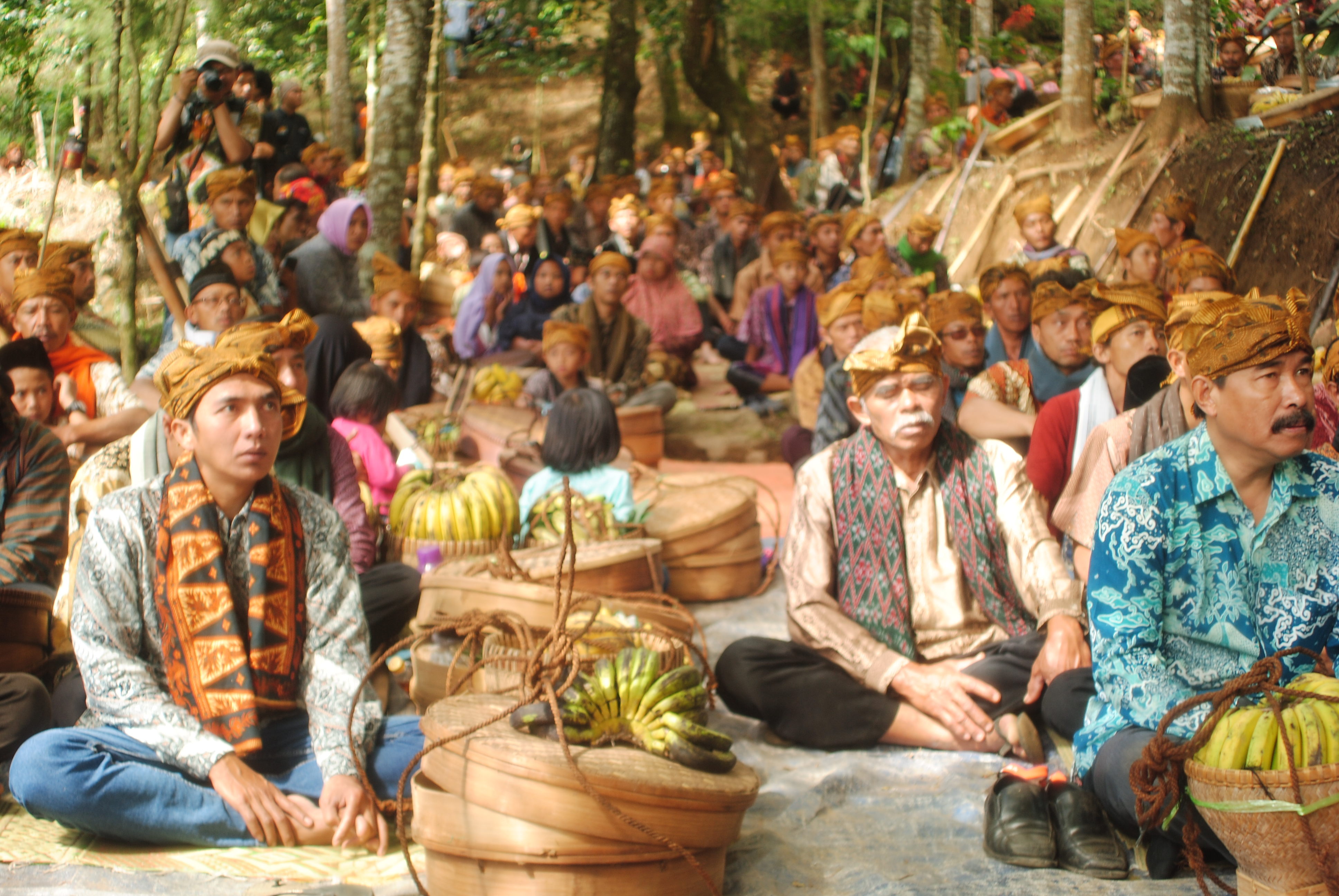 Budaya Tradisi, nyadran Plabengan di Daerah cepit, Desa Pagergunung Temanggung yang di adakan saat menjelang bulan puasa.